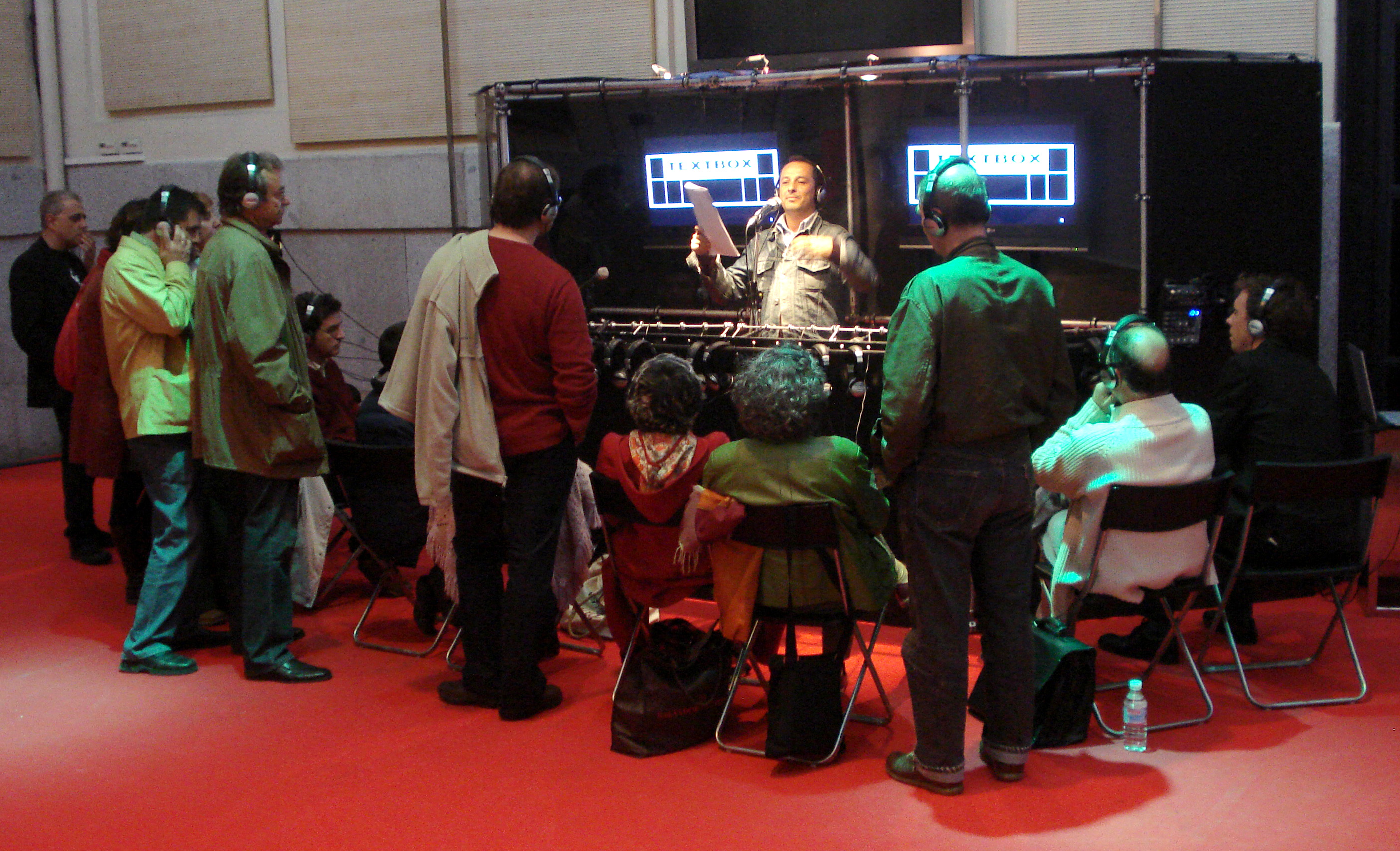 Textbox at the Casa Encendida (2008) - Textbox is a performance space for spoken word poetry and literature.